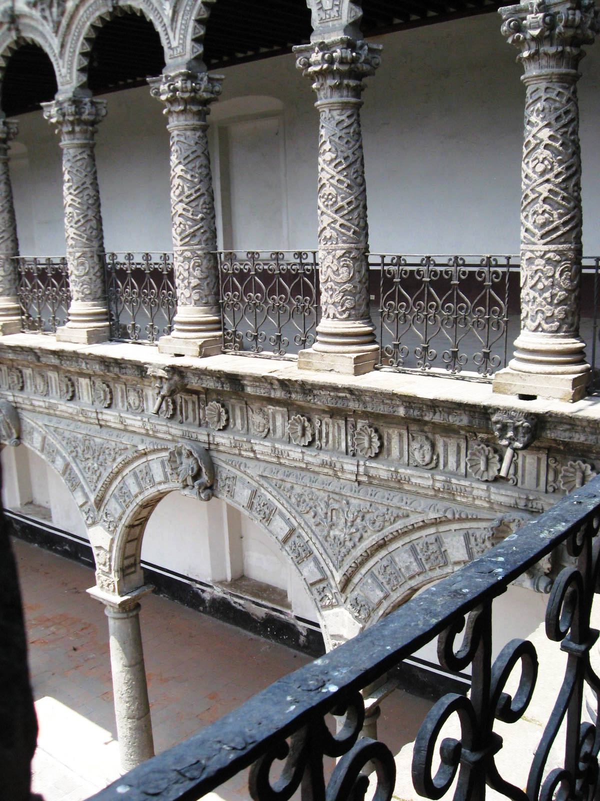 View of corner of upper and lower floors showing the doubling of columns at the La Merced Cloister in Mexico City